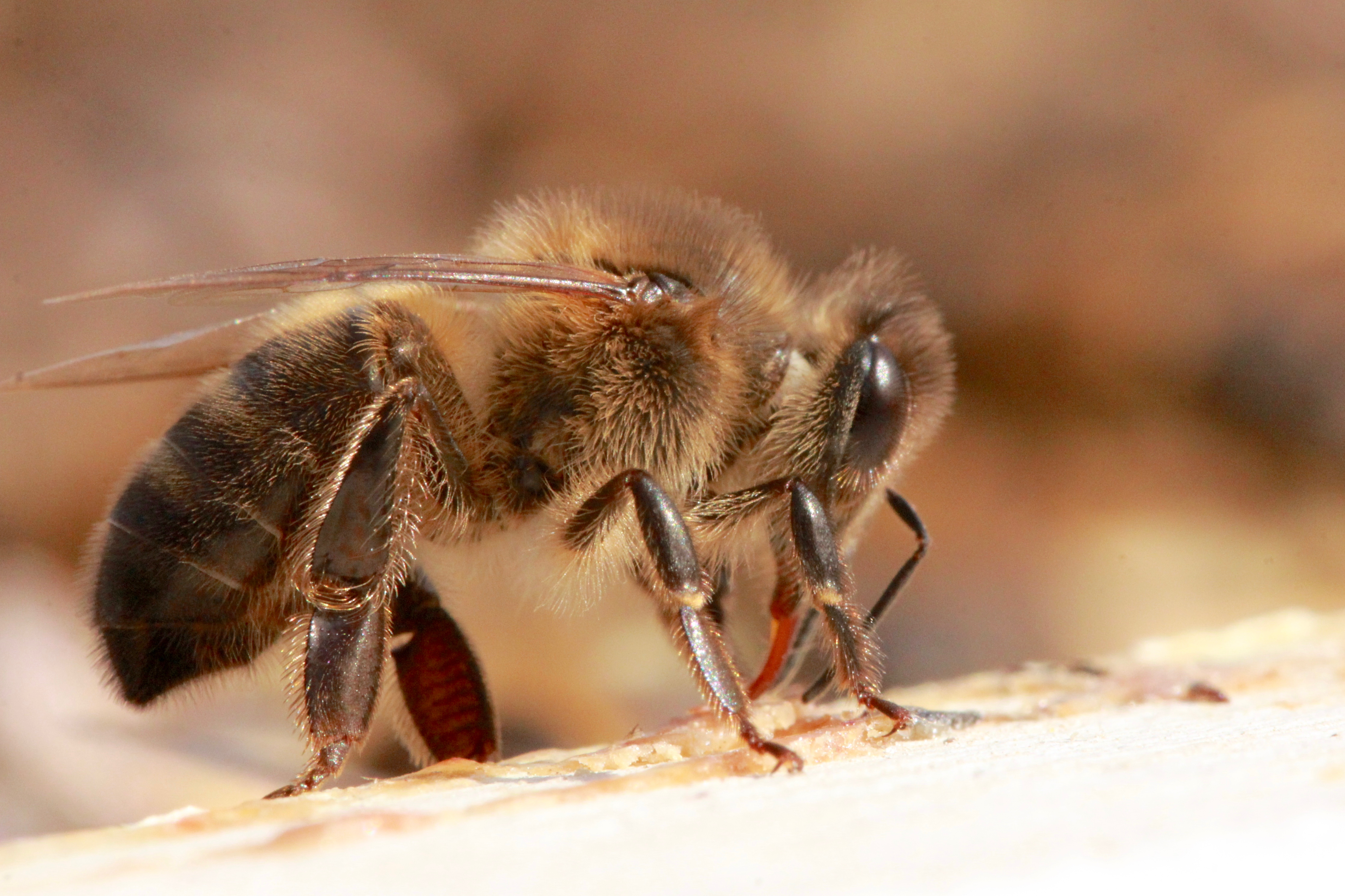 European dark bee (Apis mellifera mellifera) in the hive. Clearly visible are the wide, black abdomen with the narrow felt stripes and the blunt end.